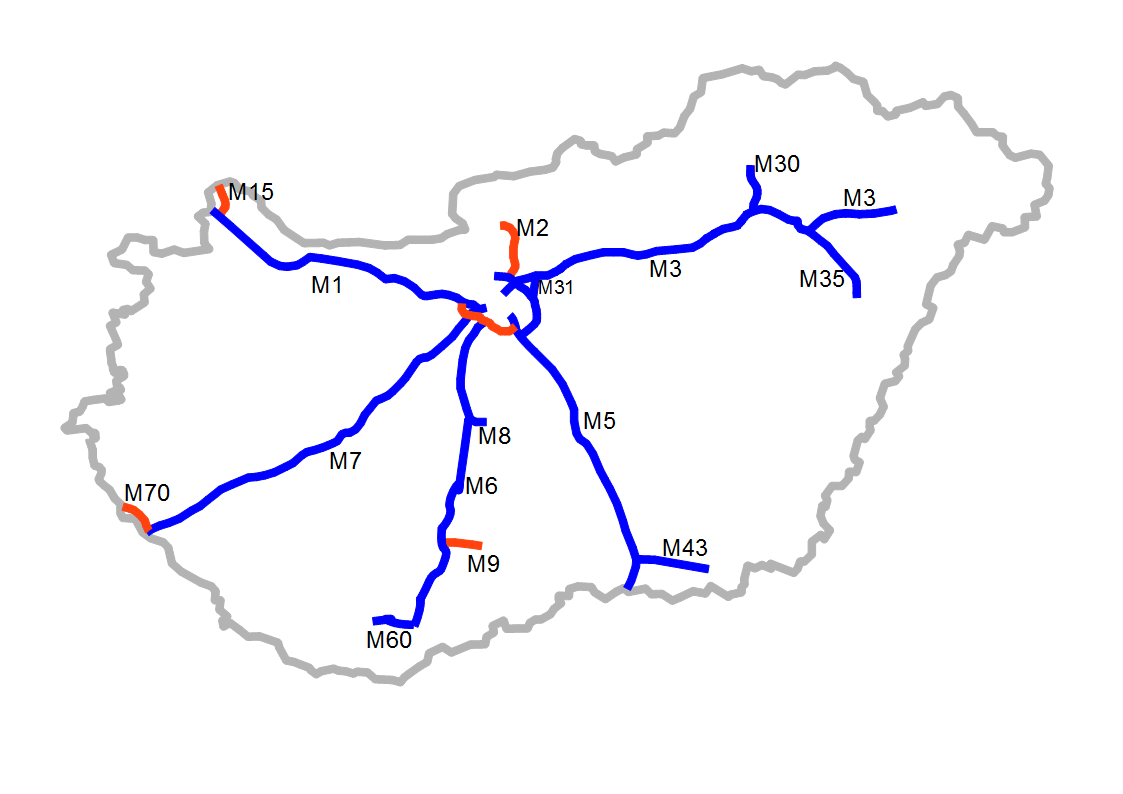 The motorways of Hungary, 2011